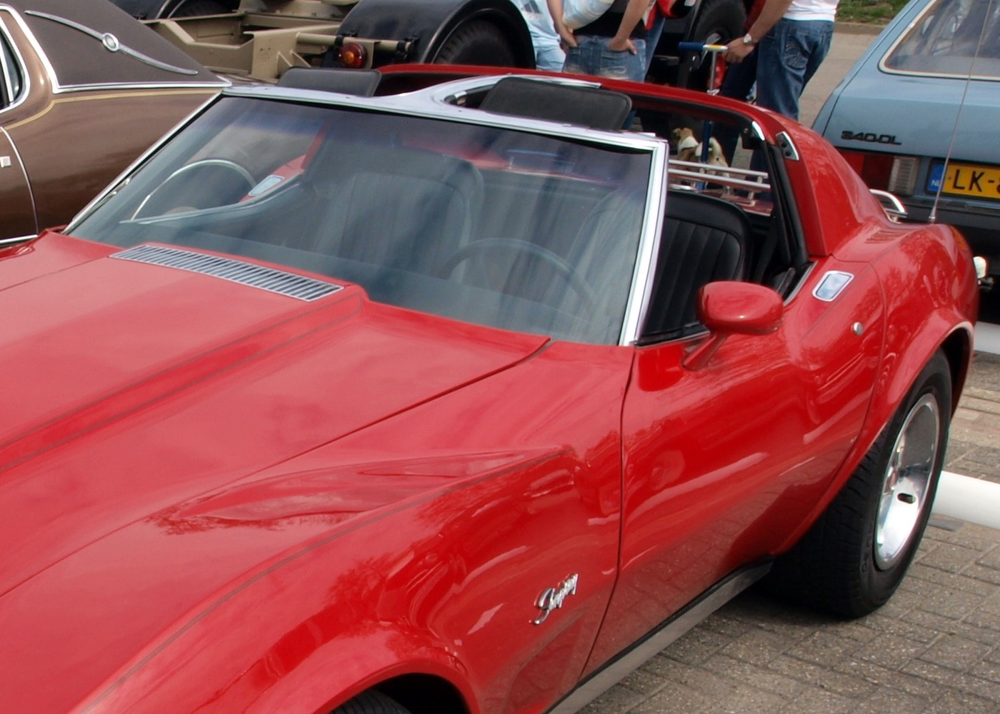 Derivative of Red Corvette Stingray pic1 ; cropped to illustrate T-top